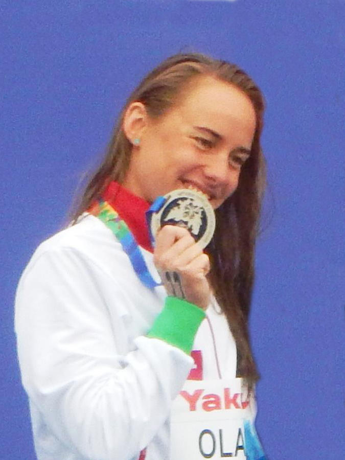 Anna Olasz, with her silver medal (25 km open water swimming at the 2015 World Champs in Kazan)